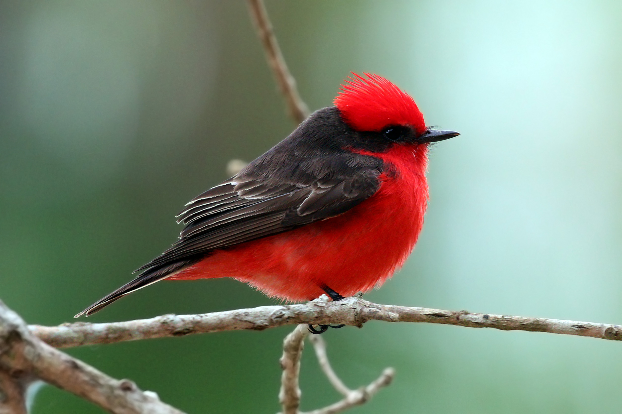 Scalet Flycatcher (Pyrocephalus rubinus) male, the Pantanal, Brazil